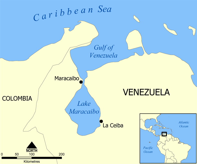 This map shows the location of Lake Maracaibo in Venezuela. Created by NormanEinstein, September 15, 2005.